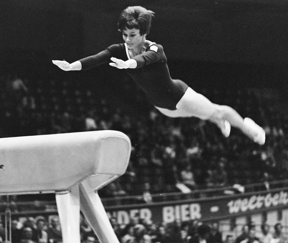 Marianna Krajčírová at the 1966 World Championships